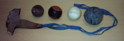 These are the almost not used or new balls for the many valencian pilota modalities, as well as a glove left to right, balls: vaqueta, badana, tec, galotxetes and left down: a glove